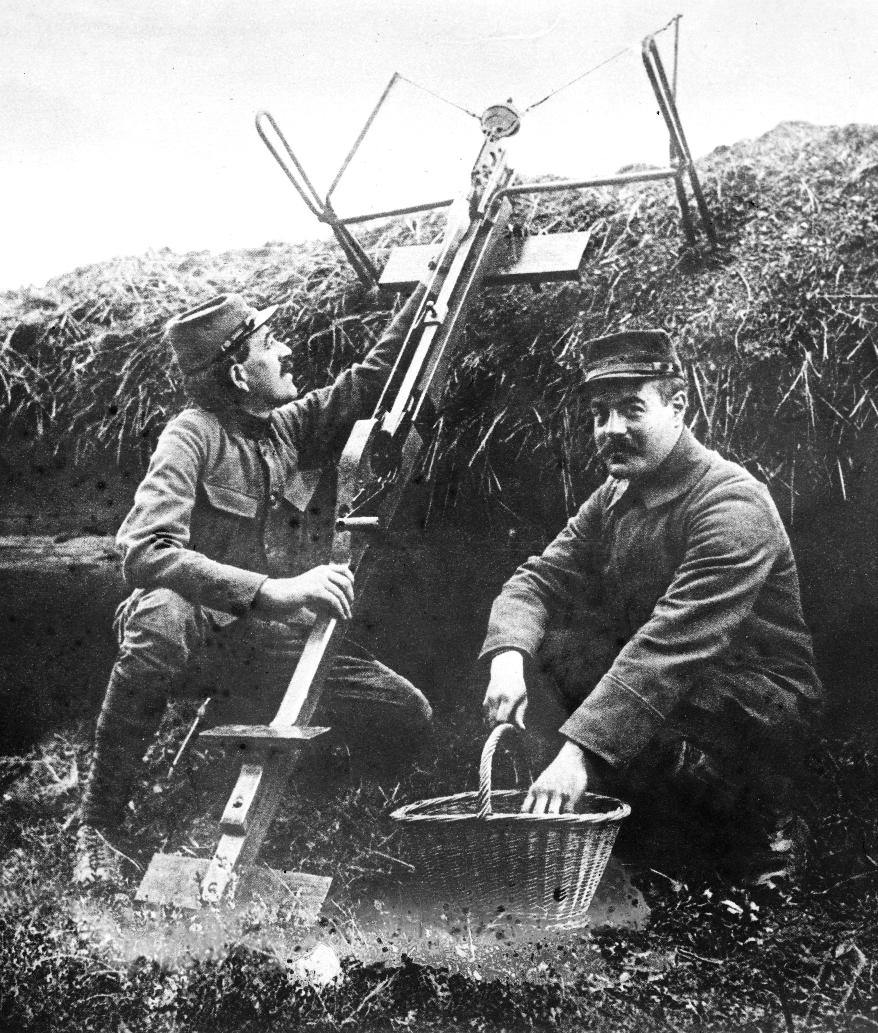 A. Sauterelle